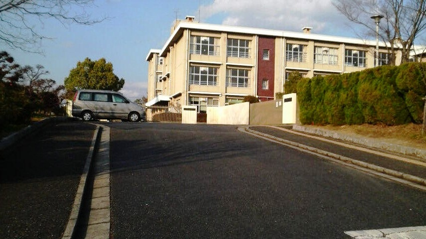 Midorigaoka Higashi elementary school in 2008